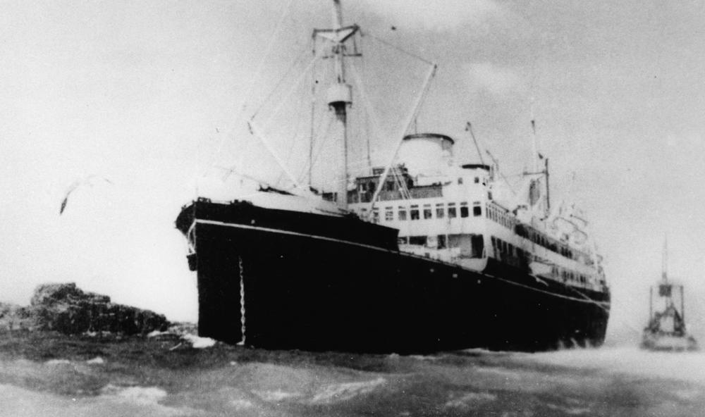 Wanganella (ship) 9576 tons. On 19 January 1947, when bound from Sydney to Wellington, ran aground on the southern end of Barretts Reef at the entrance to Wellington Harbour, New Zealand. 400 passengers were on board. For 18 days the vessel was held tight before being refloated. (Description supplied with photograph.).